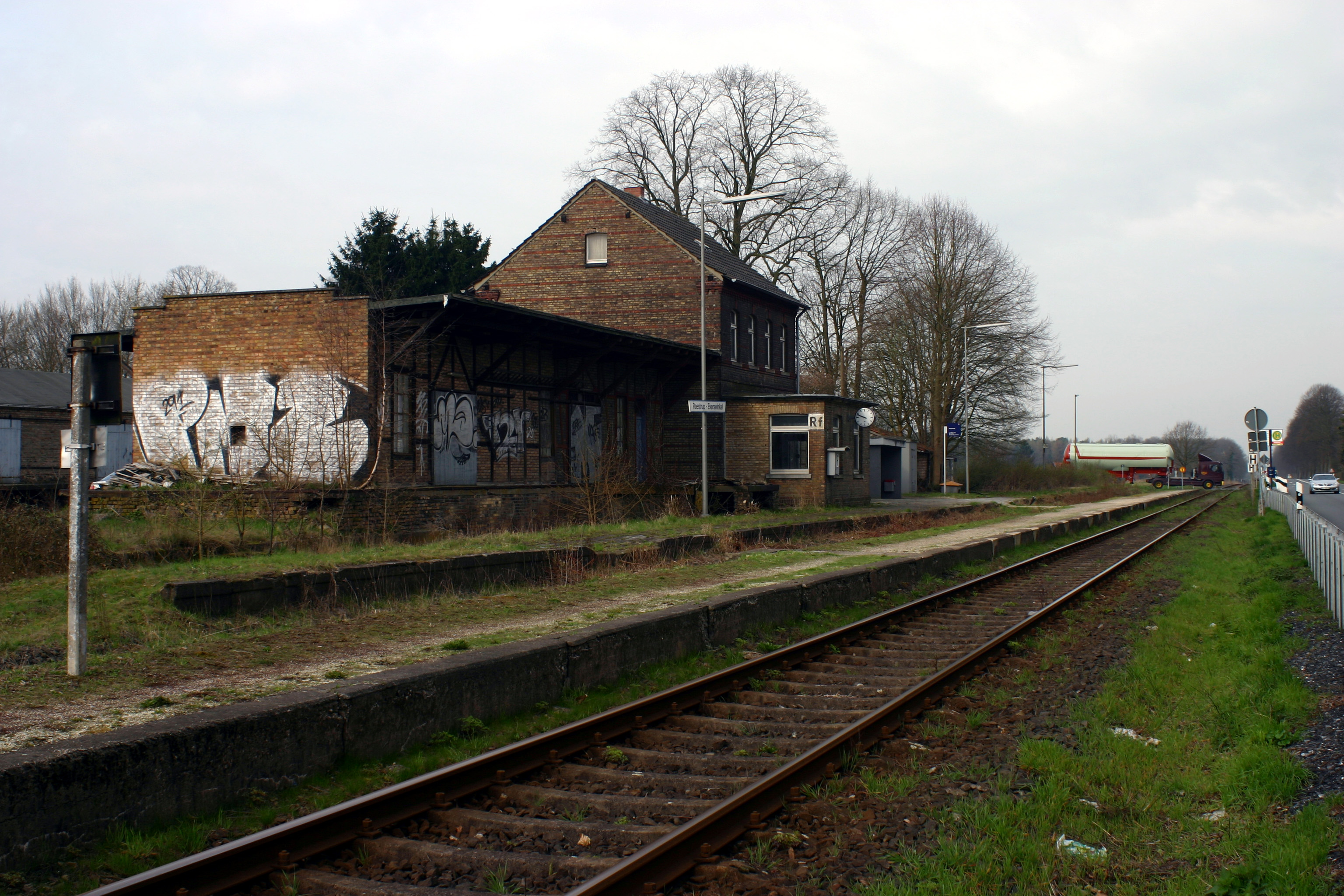 Train station Raestrup-Everswinkel between Münster and Warendorf